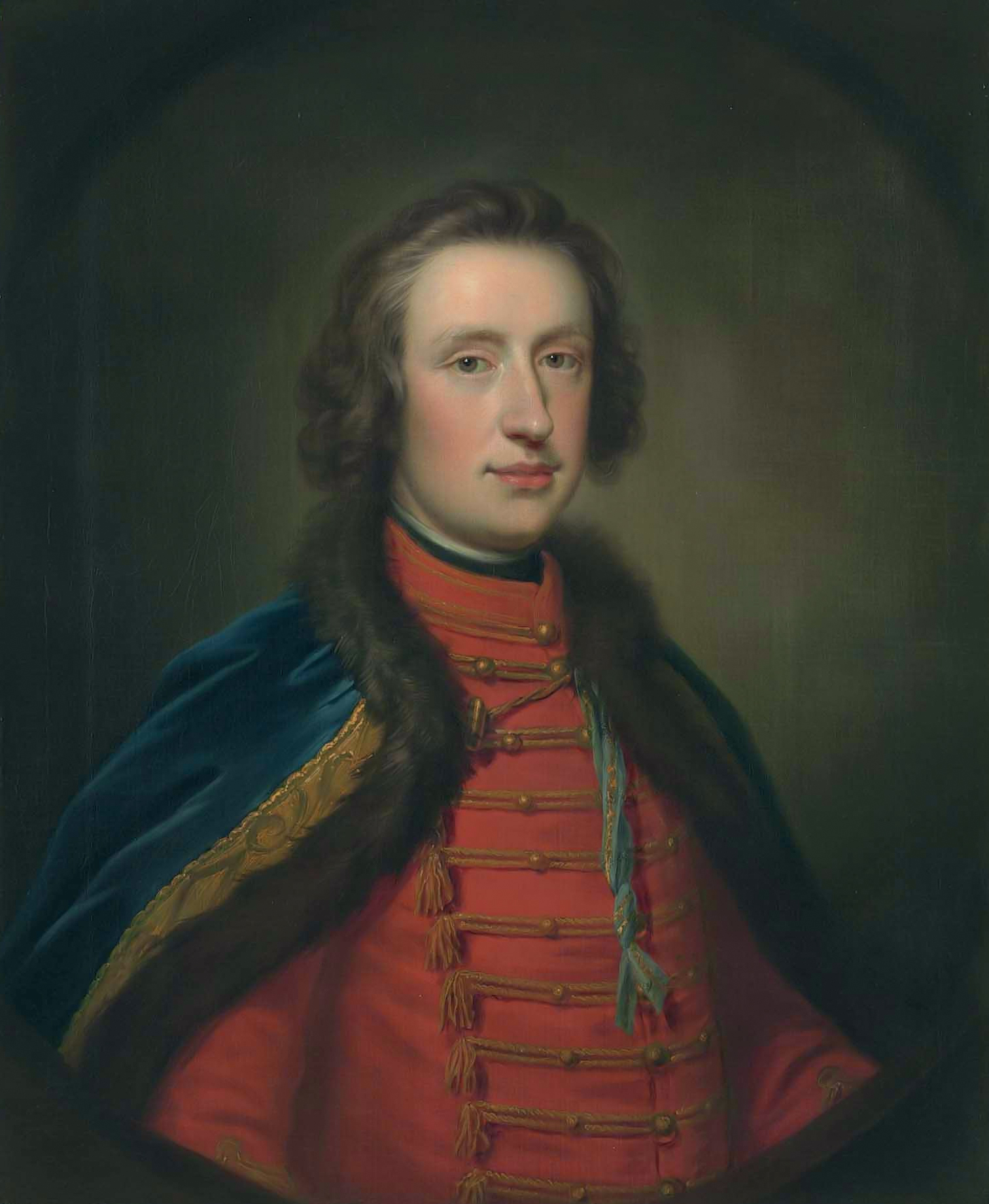 Francis Scott, Earl of Dalkeith (1721-1750), half-length, in Hussar uniform